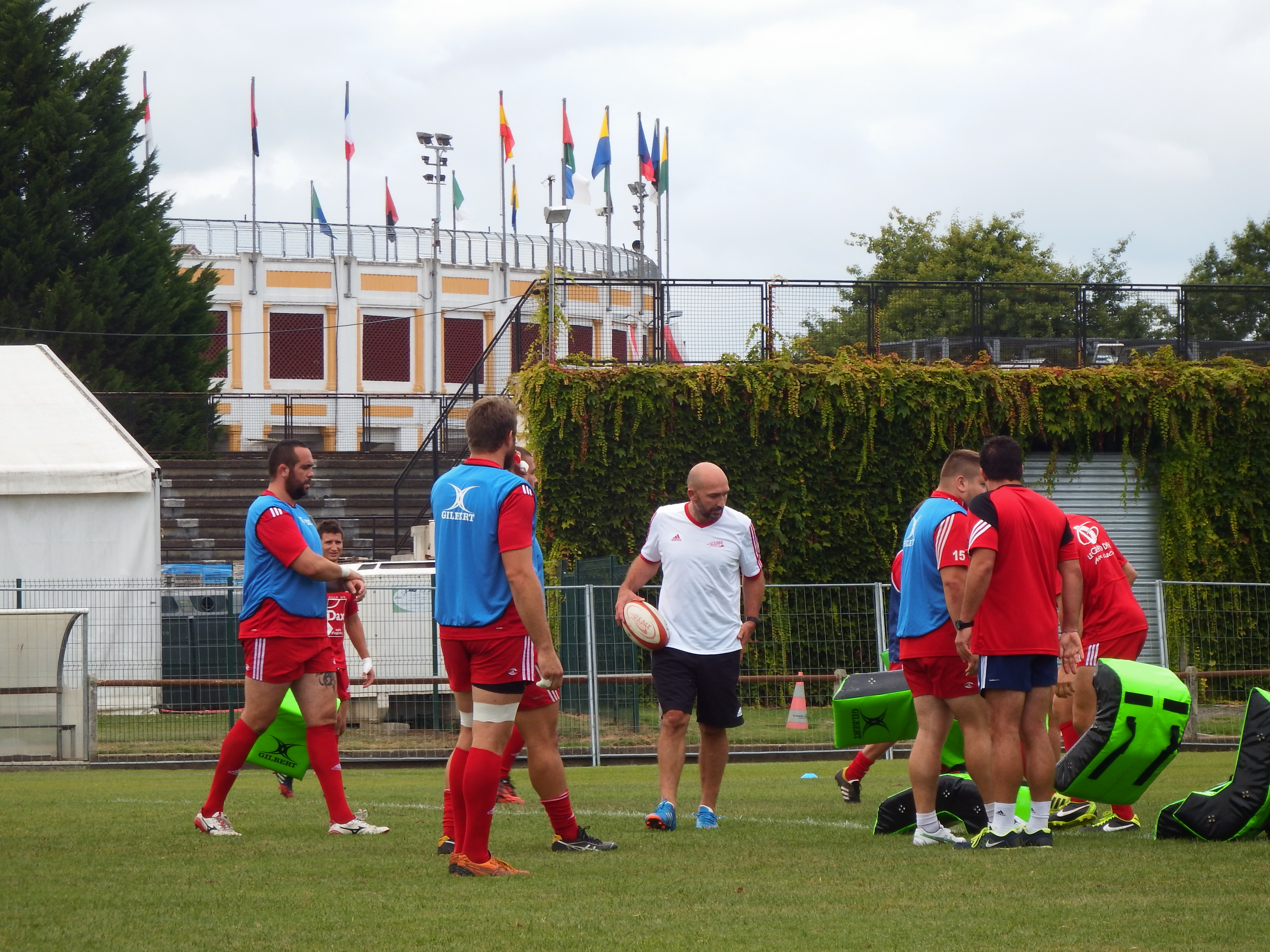 Rugby union training — 11 August 2014, stade Maurice-Boyau. Match between: US Dax — US Dax